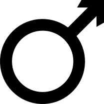 This is an image of male Symbol.